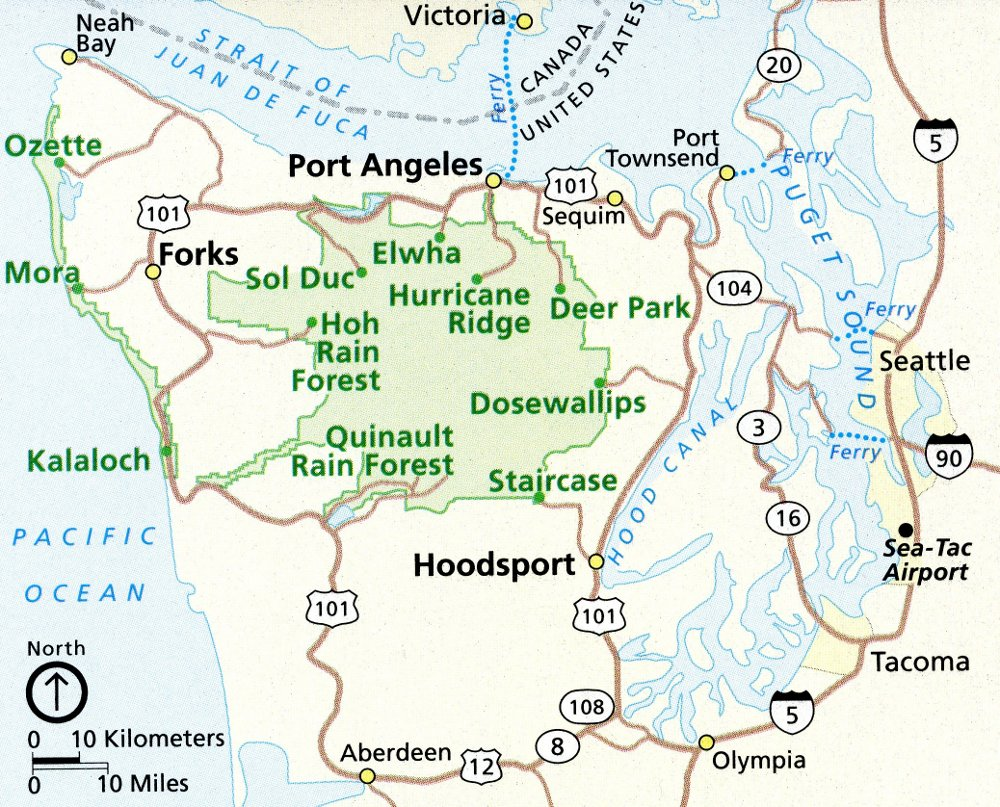 This Olympic regional map shows the surrounding roads and communities and can help you plan your trip logistics as you arrive from Seattle or another major town.